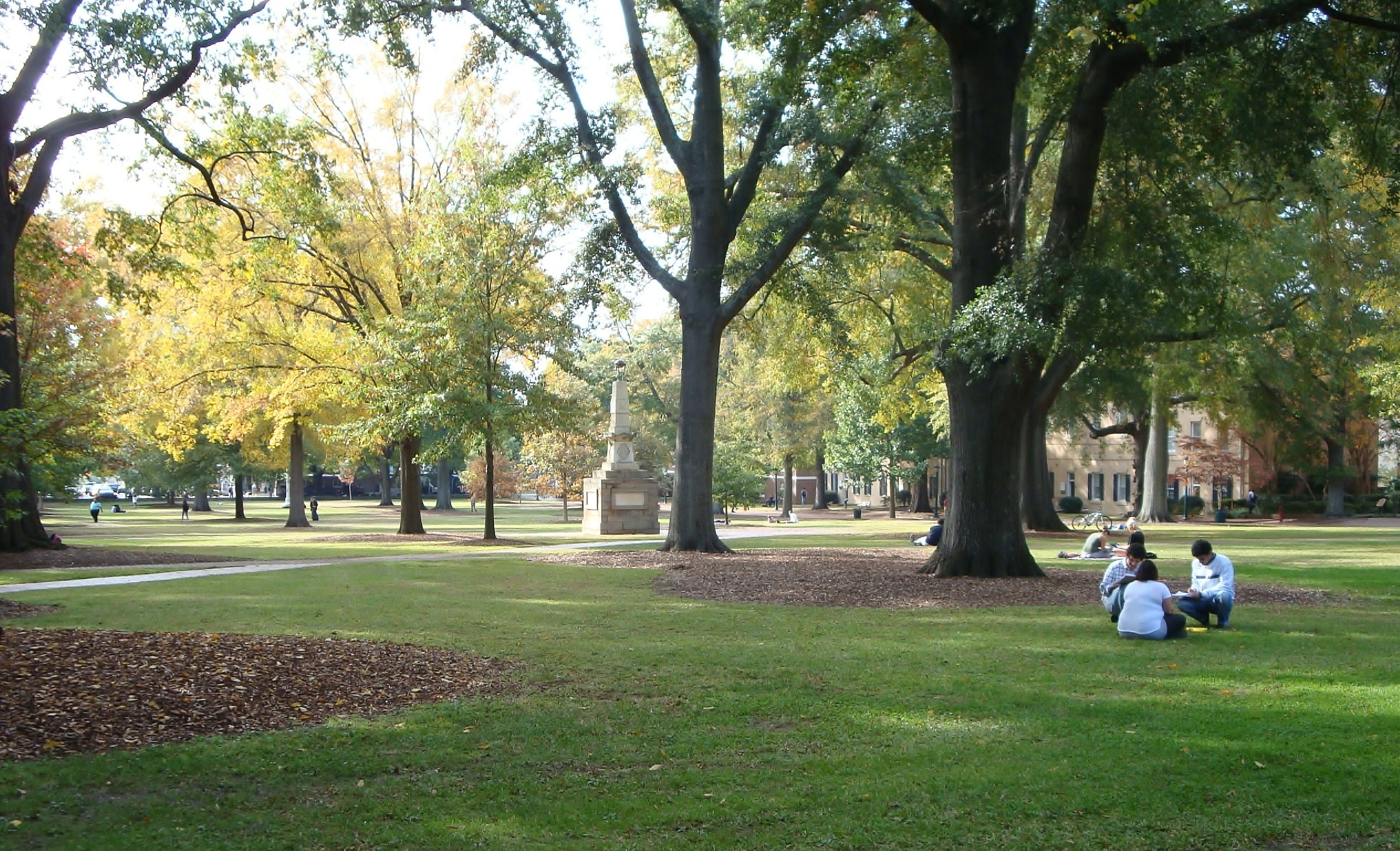 Founded in 1801, the historic Horseshoe is the center of the University of South Carolina campus